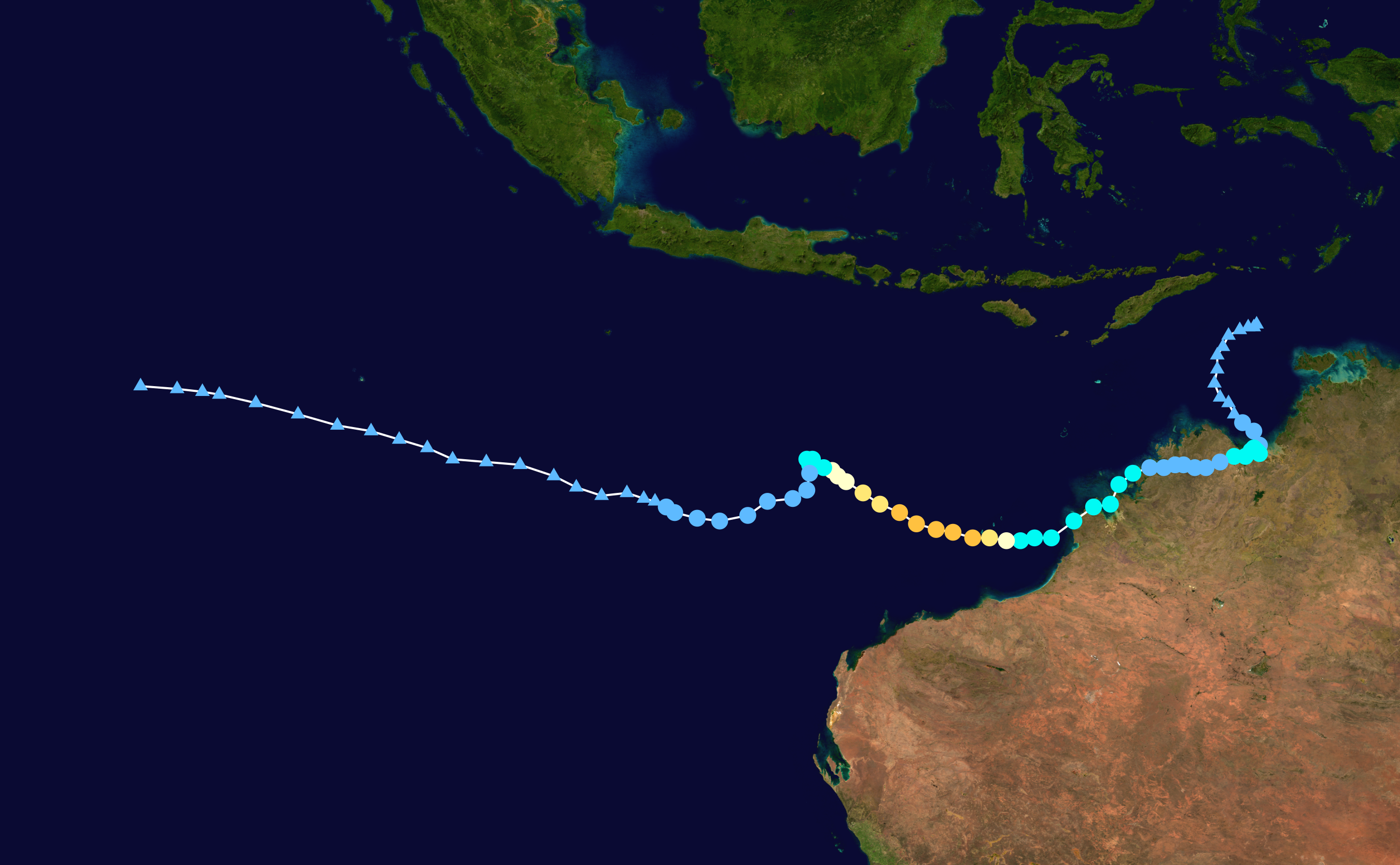 Track map of Severe Tropical Cyclone Billy of the 2008-09 Australian region cyclone season. The points show the location of the storm at 6-hour intervals. The colour represents the storm's maximum sustained wind speeds as classified in the Saffir–Simpson scale (see below), and the shape of the data points represent the nature of the storm, according to the legend below. Saffir–Simpson scale Tropical depression≤38 mph≤62 km/h Category 3111–129 mph178–208 km/h Tropical storm39–73 mph63–118 km/h Category 4130–156 mph209–251 km/h Category 174–95 mph119–153 km/h Category 5≥157 mph≥252 km/h Category 296–110 mph154–177 km/h Unknown Storm type Tropical cyclone Subtropical cyclone Extratropical cyclone / Remnant low / Tropical disturbance / Monsoon depression